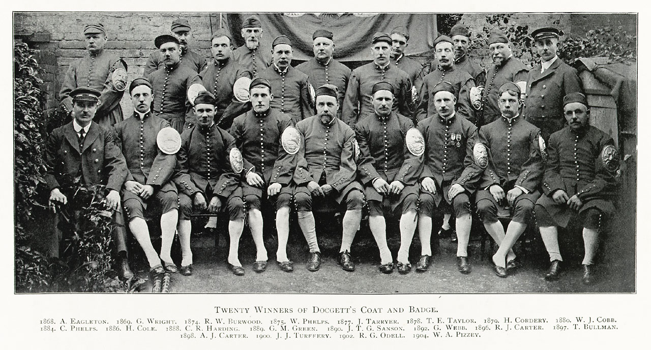 Reproduction ID: H6703 Maker: Unknown Date: 1908